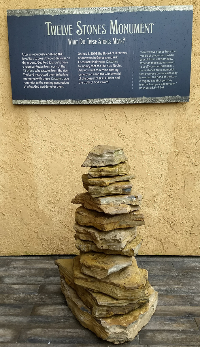 A monument outside the Ark Encounter with signage indicating it was erected by the Answers in Genesis Board of Directors on July 5, 2016 and relating to a monument described in Joshua, chapter 4 in the Bible.